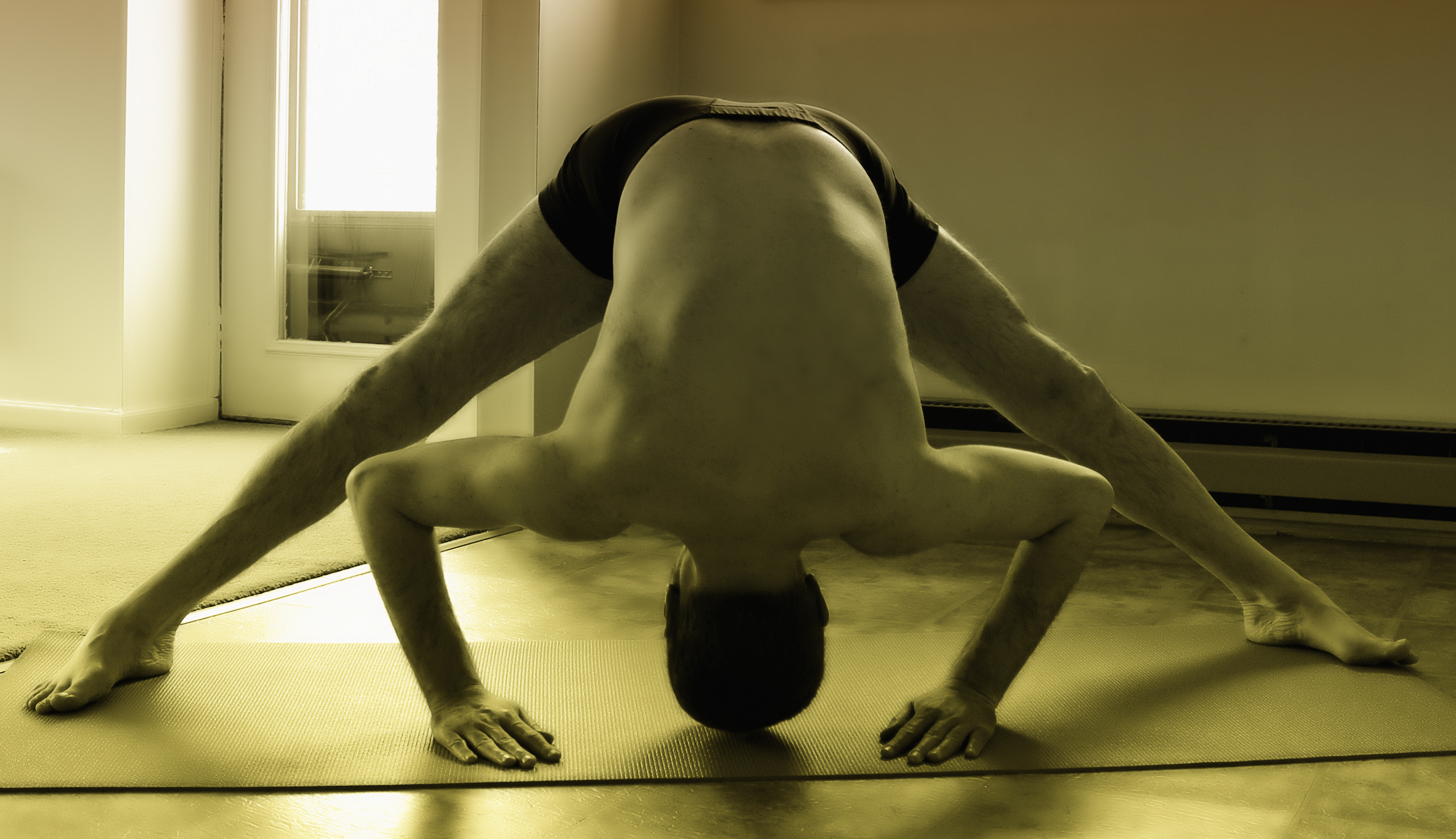 Practicing the wide-legged forward bend (prasarita padottanasana).